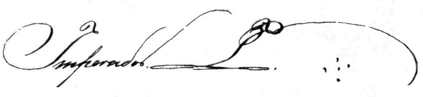 Signature of Emperor Pedro I of Brazil when signing official documents.